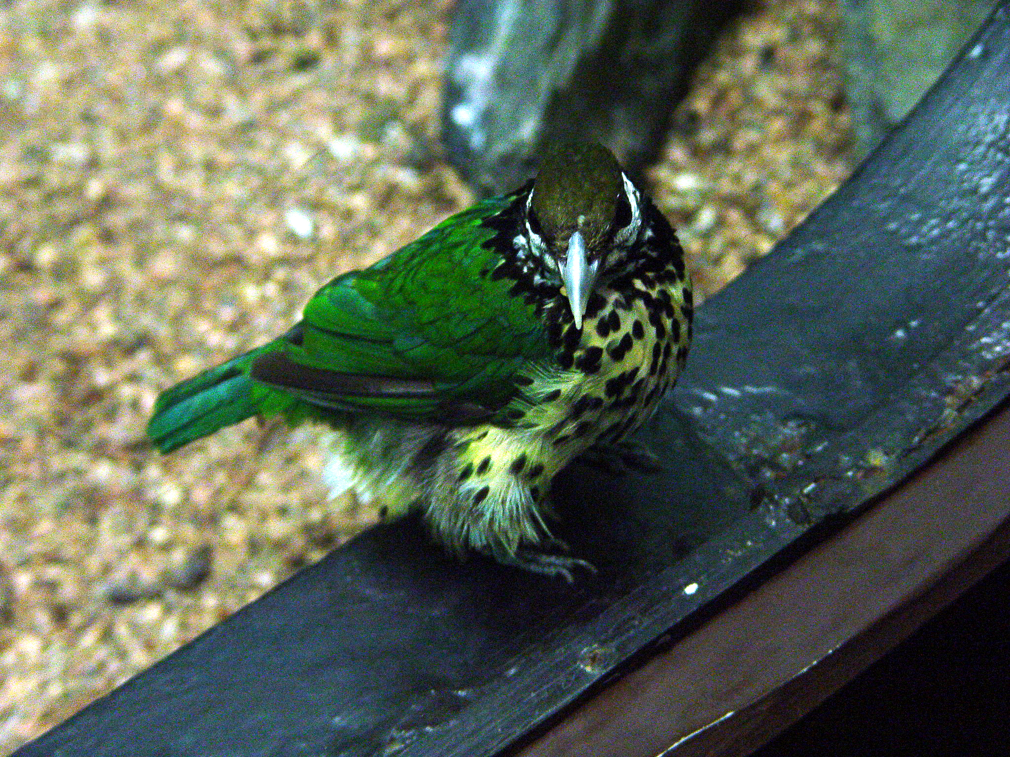 White-eared Catbird at Denver Zoo. Colorado, USA.